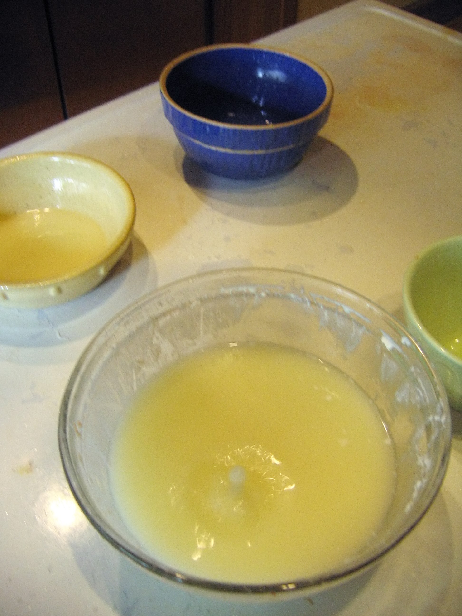 Whey collecting under draining, new made goat's milk cheese